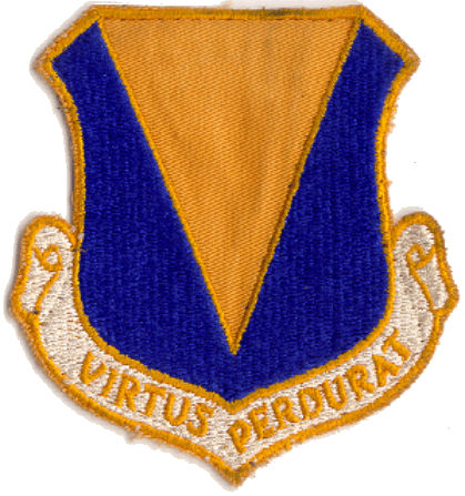 86th Tactical Fighter Wing - Emblem